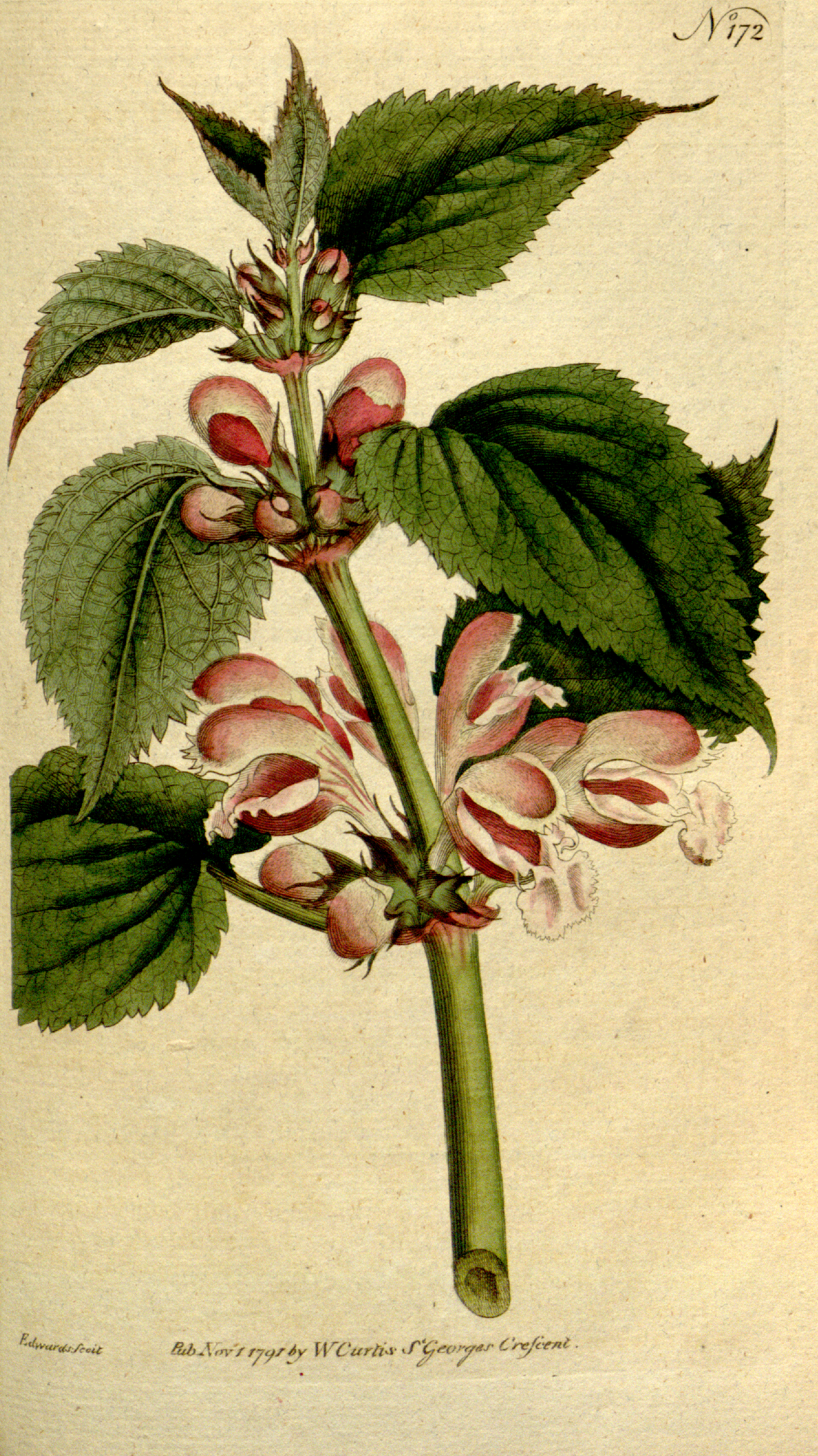 This is a plate from The Botanical Magazine, Volume 5.